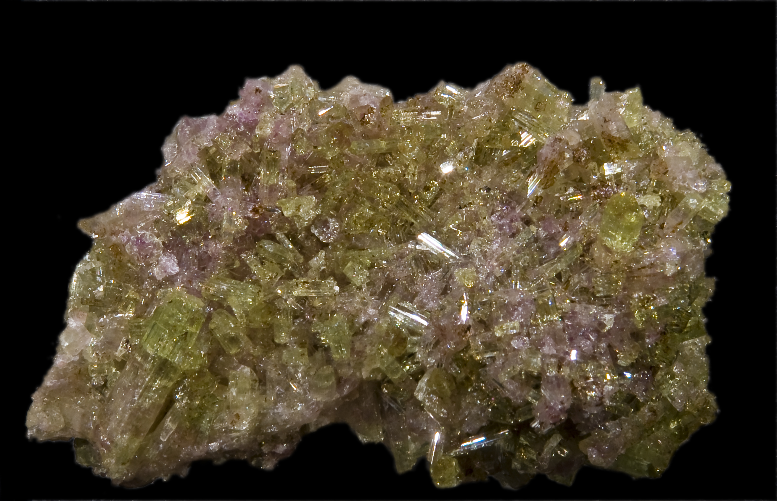 Vesuvianite and manganoan vesuvianite Locality : effrey Mine (Jeffrey Quarry), Asbestos, Shipton Township, Richmond Co., Québec, Canada Size : (4.3x2.8cm)